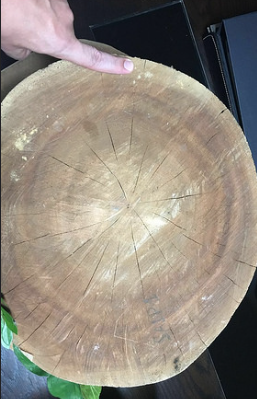 planted red cedar in Brazil